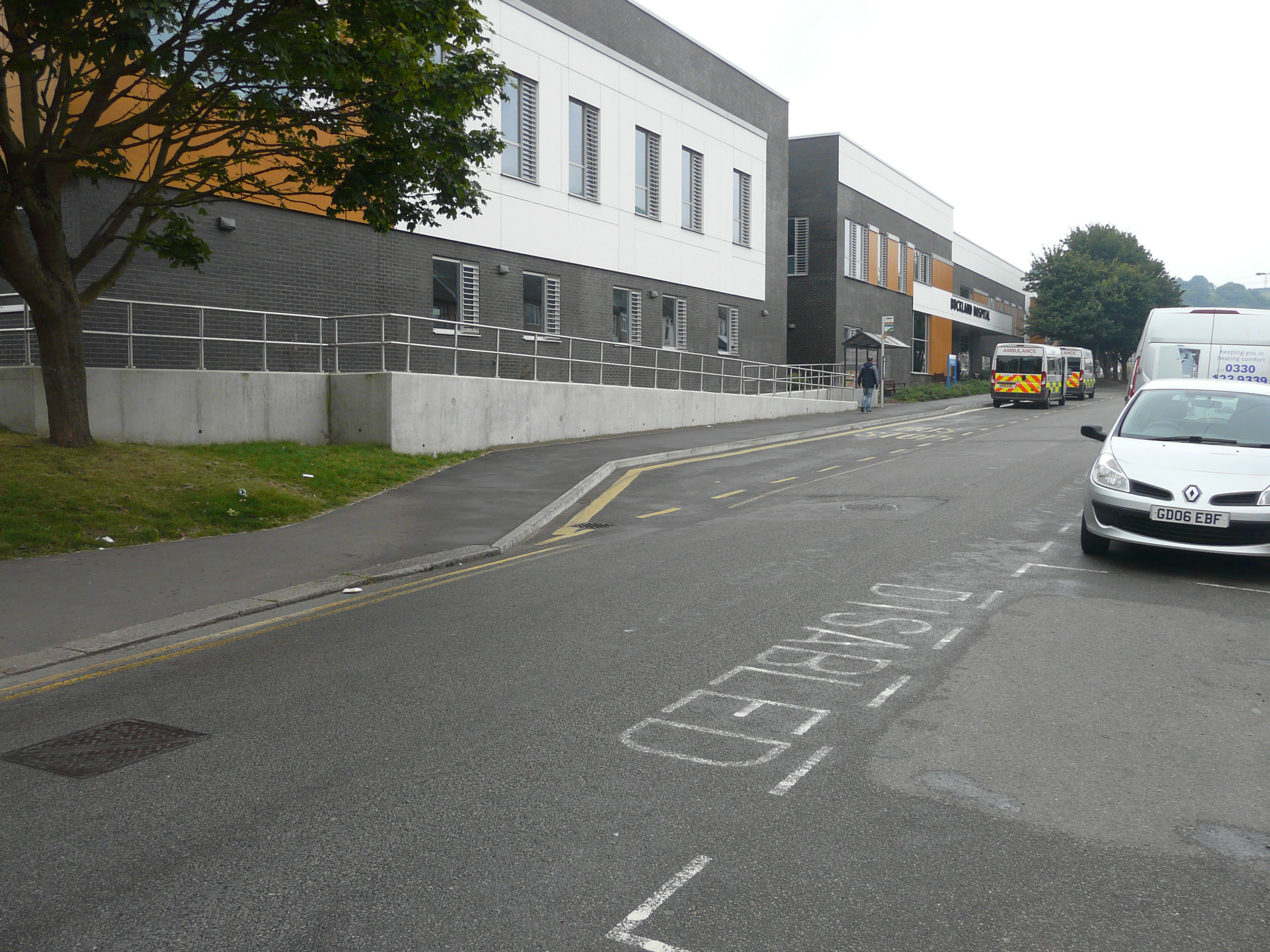 New Buckland Hospital, Coombe Valley Road